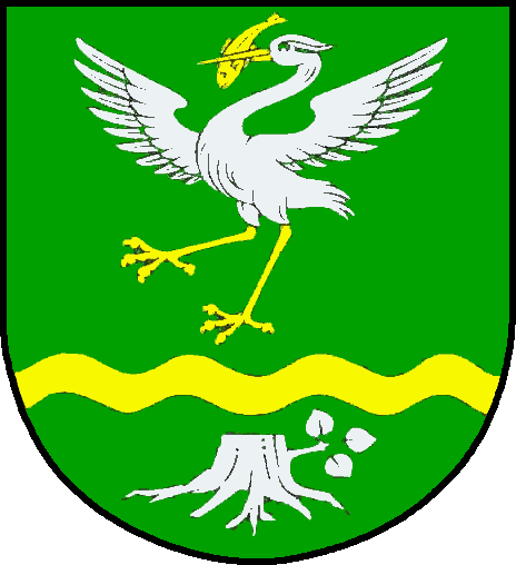 Coat of arms of the municipality Westerrade in Schleswig-Holstein, Germany.